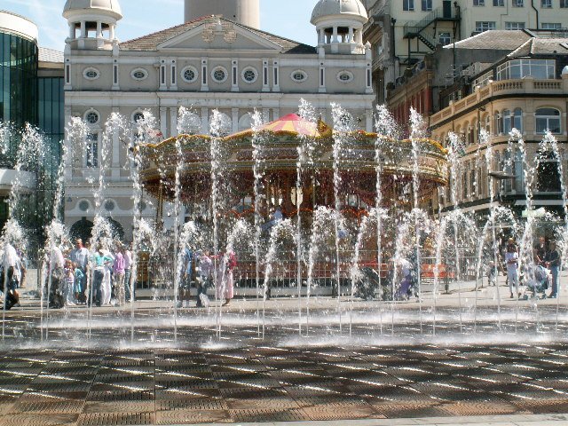 Liverpool city centre. Williamson Square fountain, water is pumped up from the original pool of Liverpool